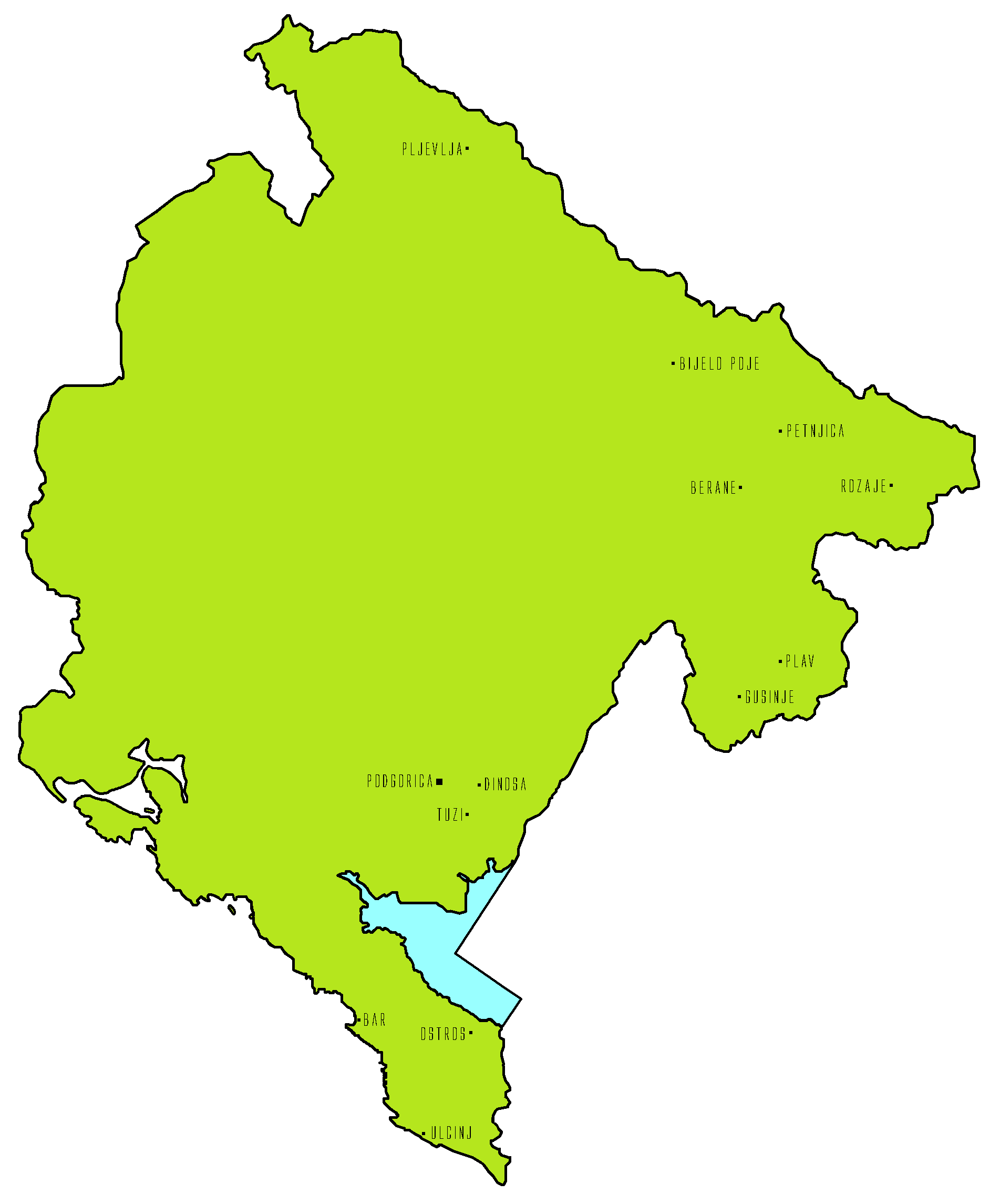 This map represents the territores that are under the authority of the Islamic Community of Montenegro. The cities represents the seats of the Councils of Islamic Communities, with Podgorica its main seat.